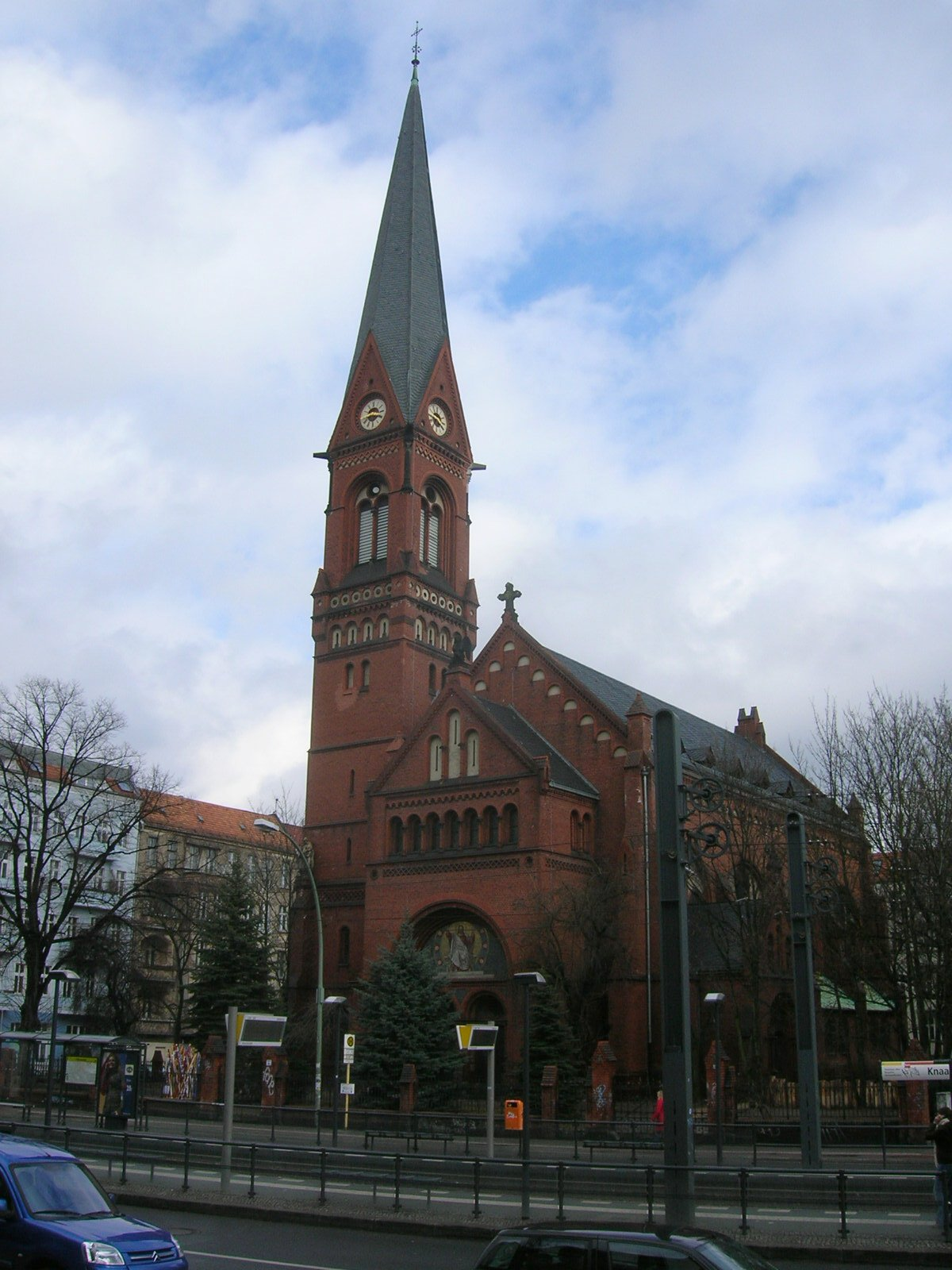 The Immanuelkirche (Immanuel church), Prenzlauer Allee, at Prenzlauer Berg, Berlin, Germany